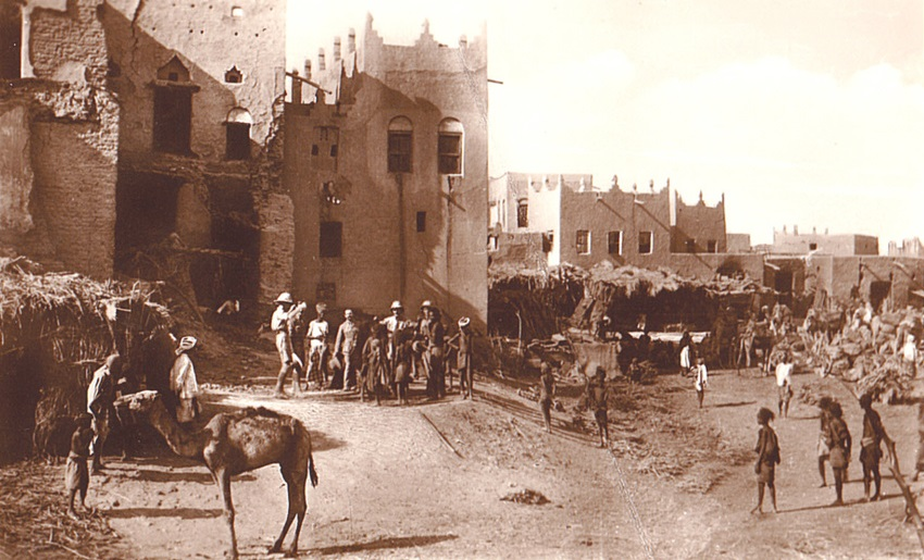 The sultanate of Lahej was the largest and most important state of the western half of Aden Protectorate. Due to its proximity to the city of Aden, it was the most westernized and most frequently visited part of the Protectorate. Postcard issued circa 1910.